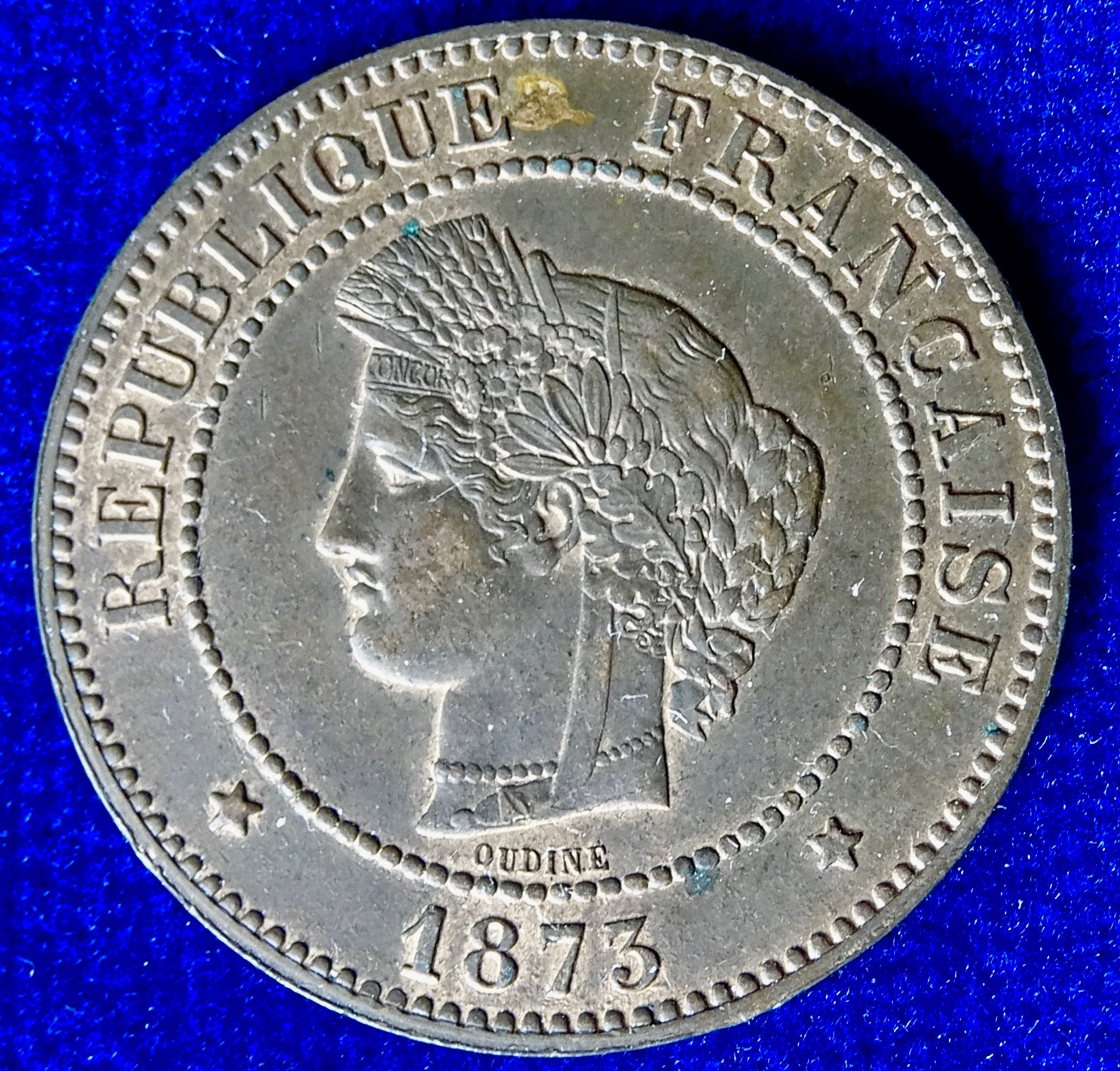 France 3rd Republic, Sou (5 Centimes) 1973 A Paris Mint. High Grade Bronze Coin. Head of Ceres l., around: "* REPUBLIQUE FRANCAISE * date *"/ Value and mint mark within wreath, around: "LIBERTÉ ÉGALITÉ FRATERNITÉ". Gadoury 44 a, KM 821.1. Medallist: (Eugène André) Oudiné, 1810 Paris - 1889 Paris Condition: Nice EXTREMELY FINE+. Much lustre left.